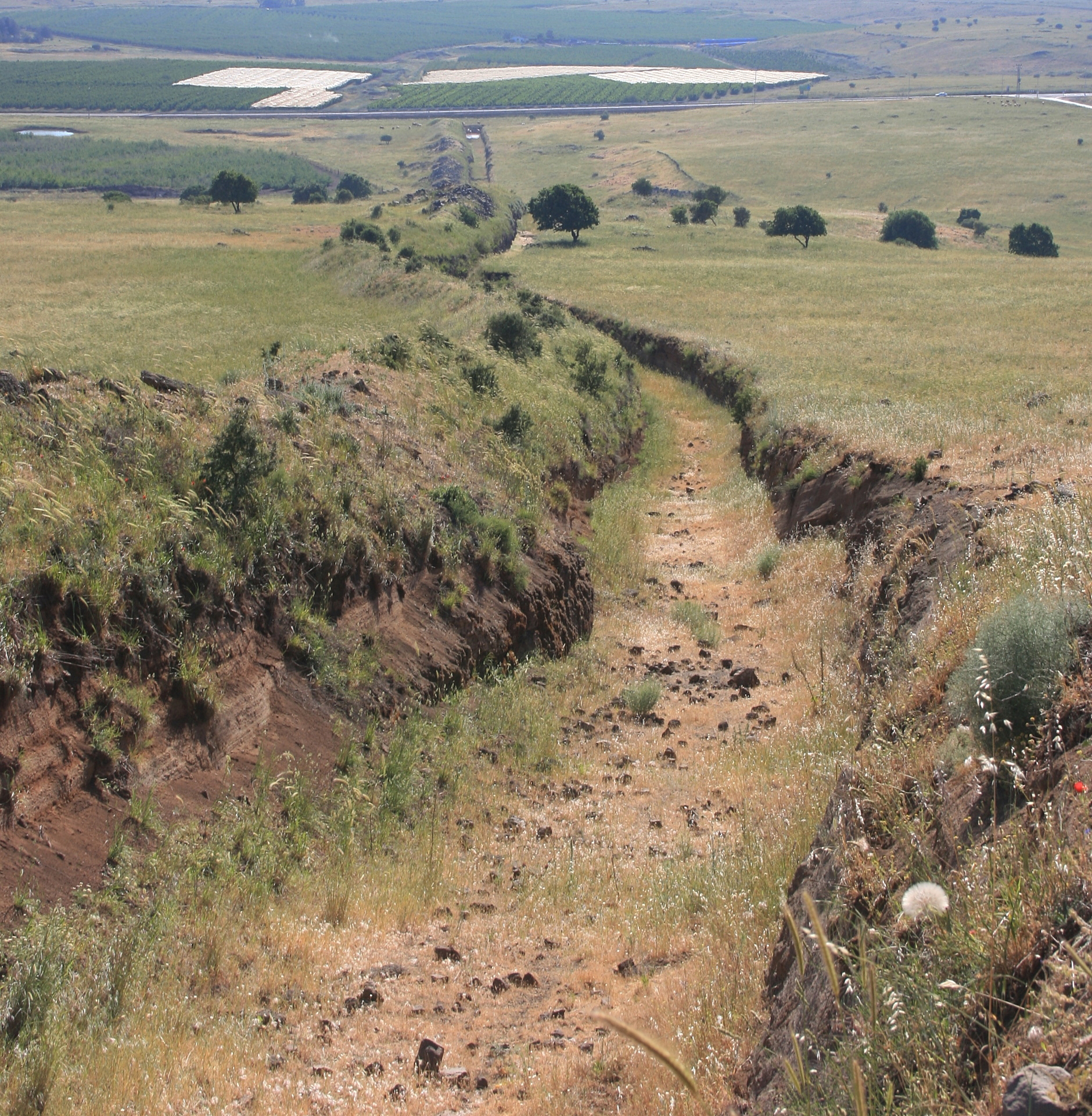 An AT trench.